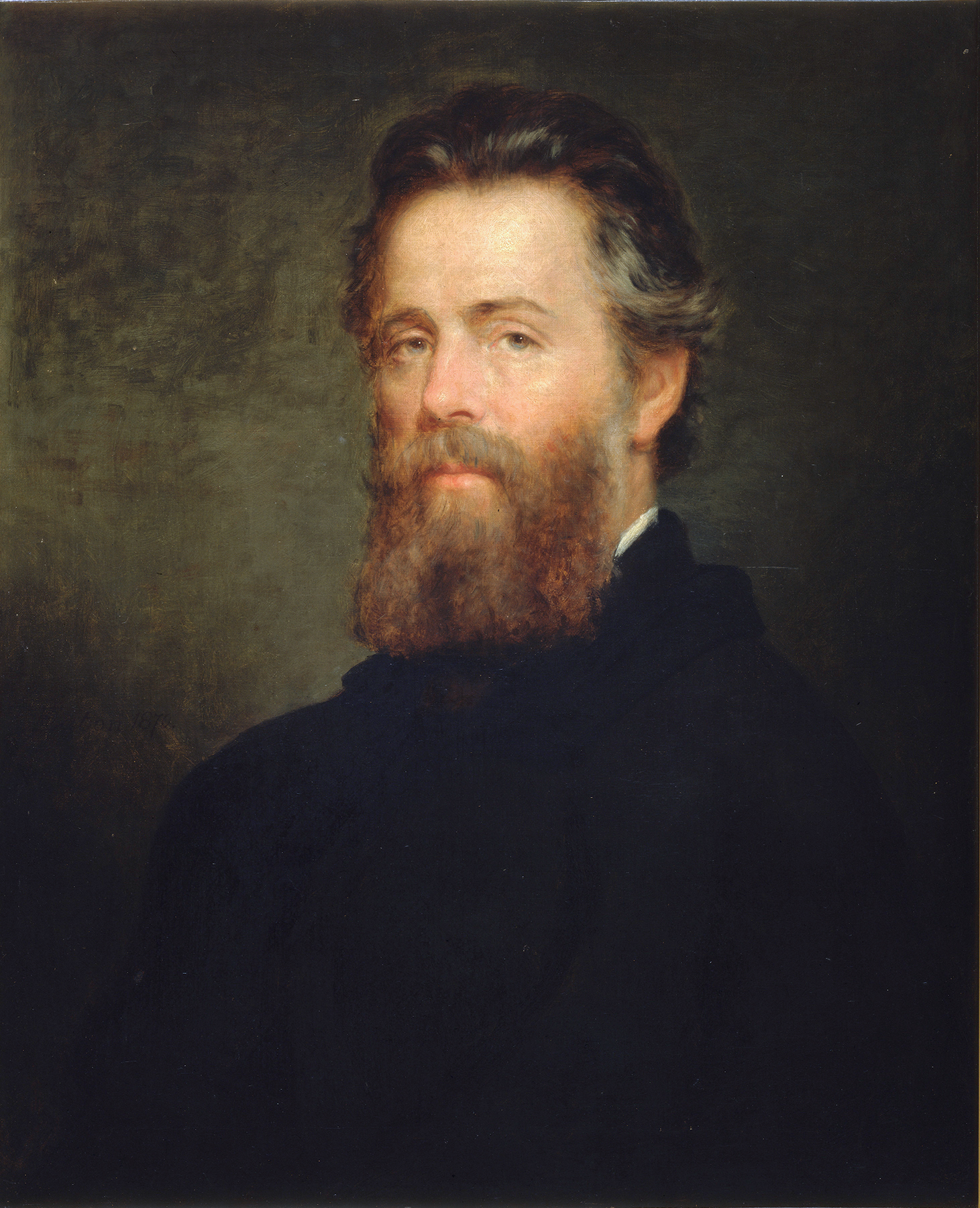 Portrait of Herman Melville. Commissioned and presented to the family by Melville's brother-in-law, John Hoadley. The portrait now hangs in the Edison and Newman Room in the Houghton Library at Harvard University.